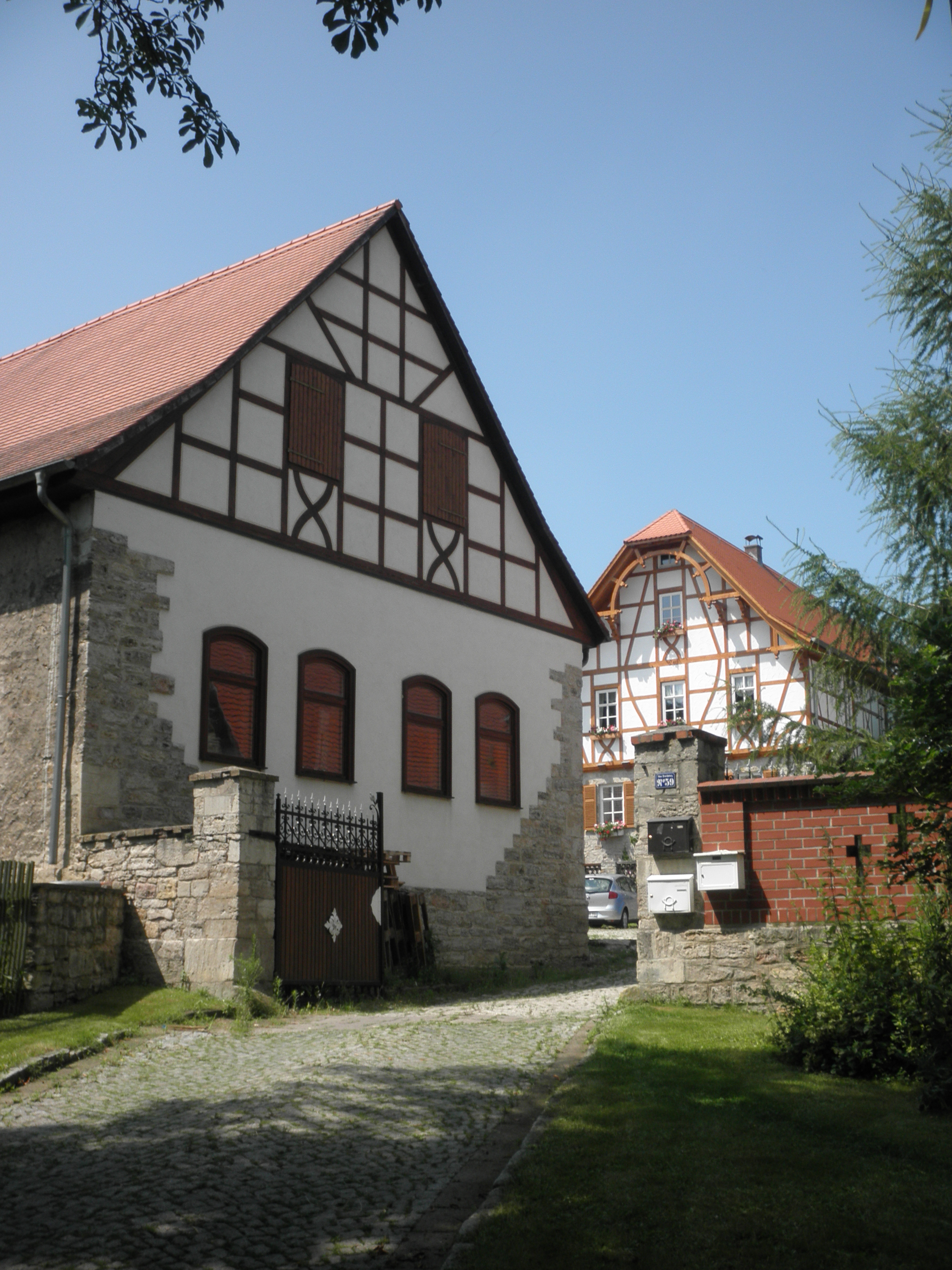 Manor in Münchengosserstädt (Saaleplatte) in Thuringia